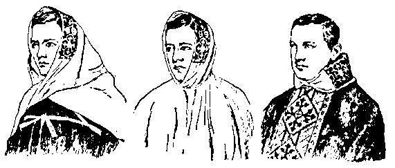 Medieval Method of putting on the Amice.Image from 1911 Encyclopædia Britannica, article Amice.